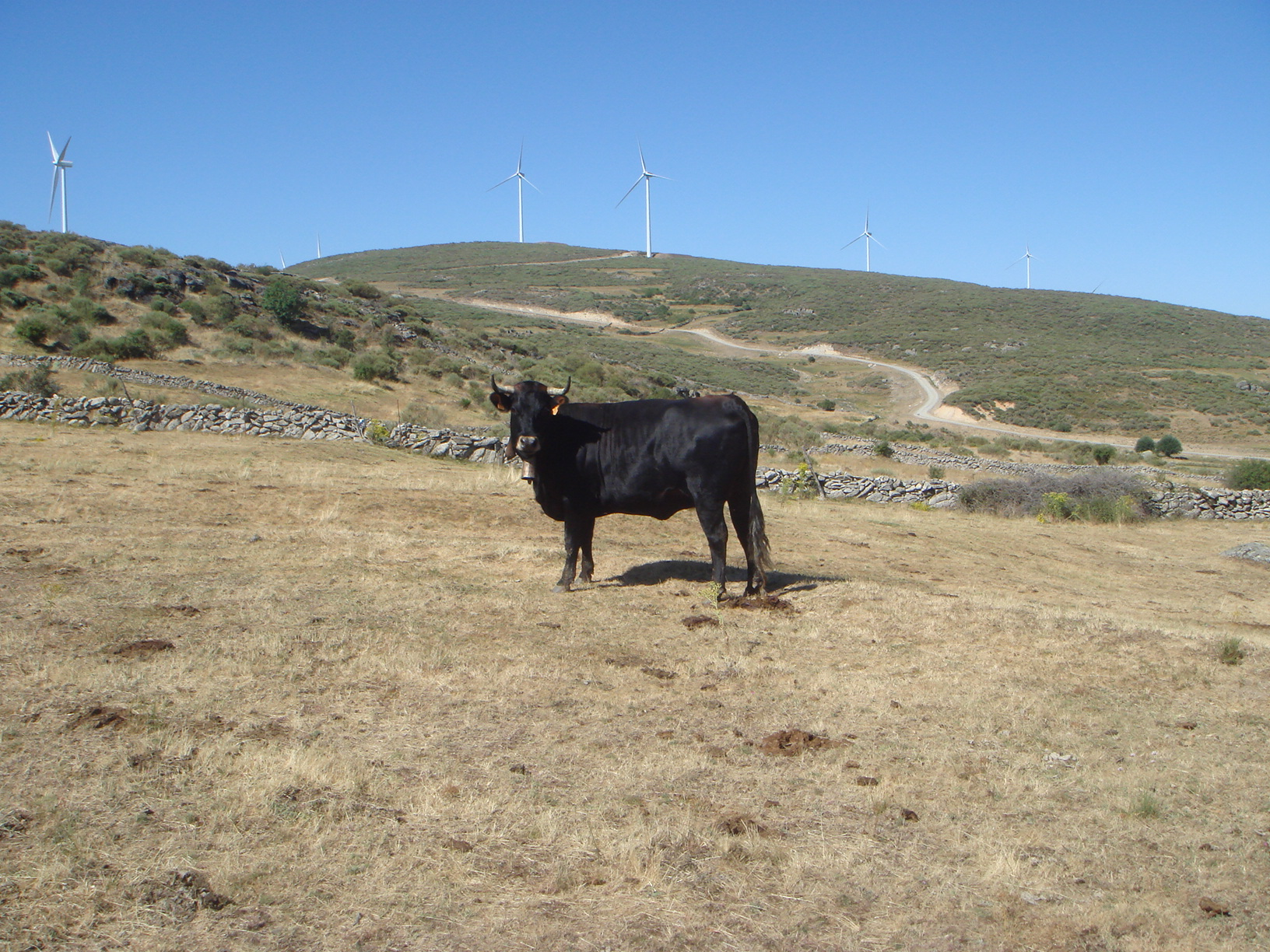 Ávila Oeste Wind Farm, north face, Cabeza Mesá (1676 m), Sierra de Ávila, Spain.